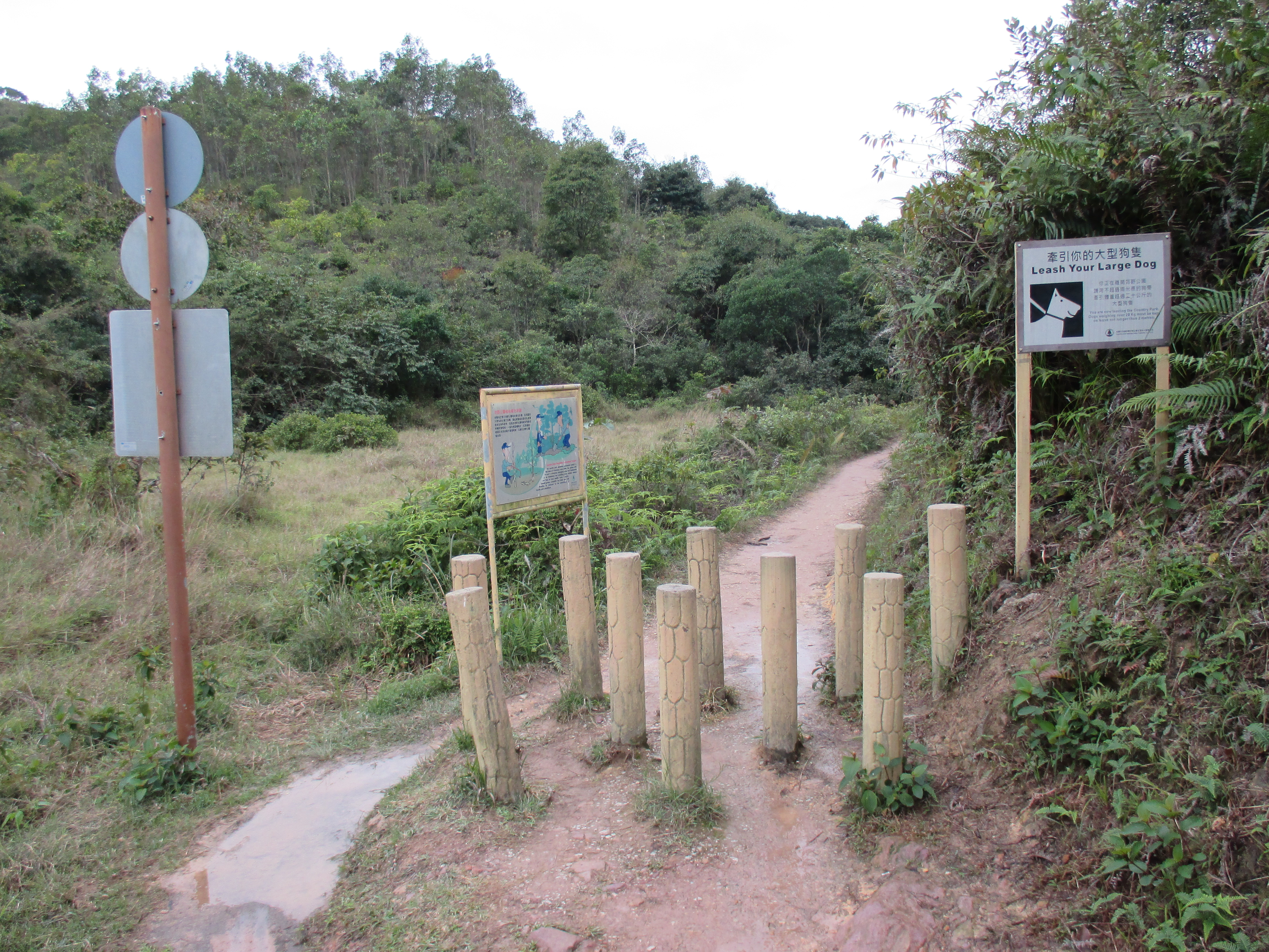 Hiking path near Kau Tam Tso, a village in North District, Hong Kong. Plover Cove Country Park.